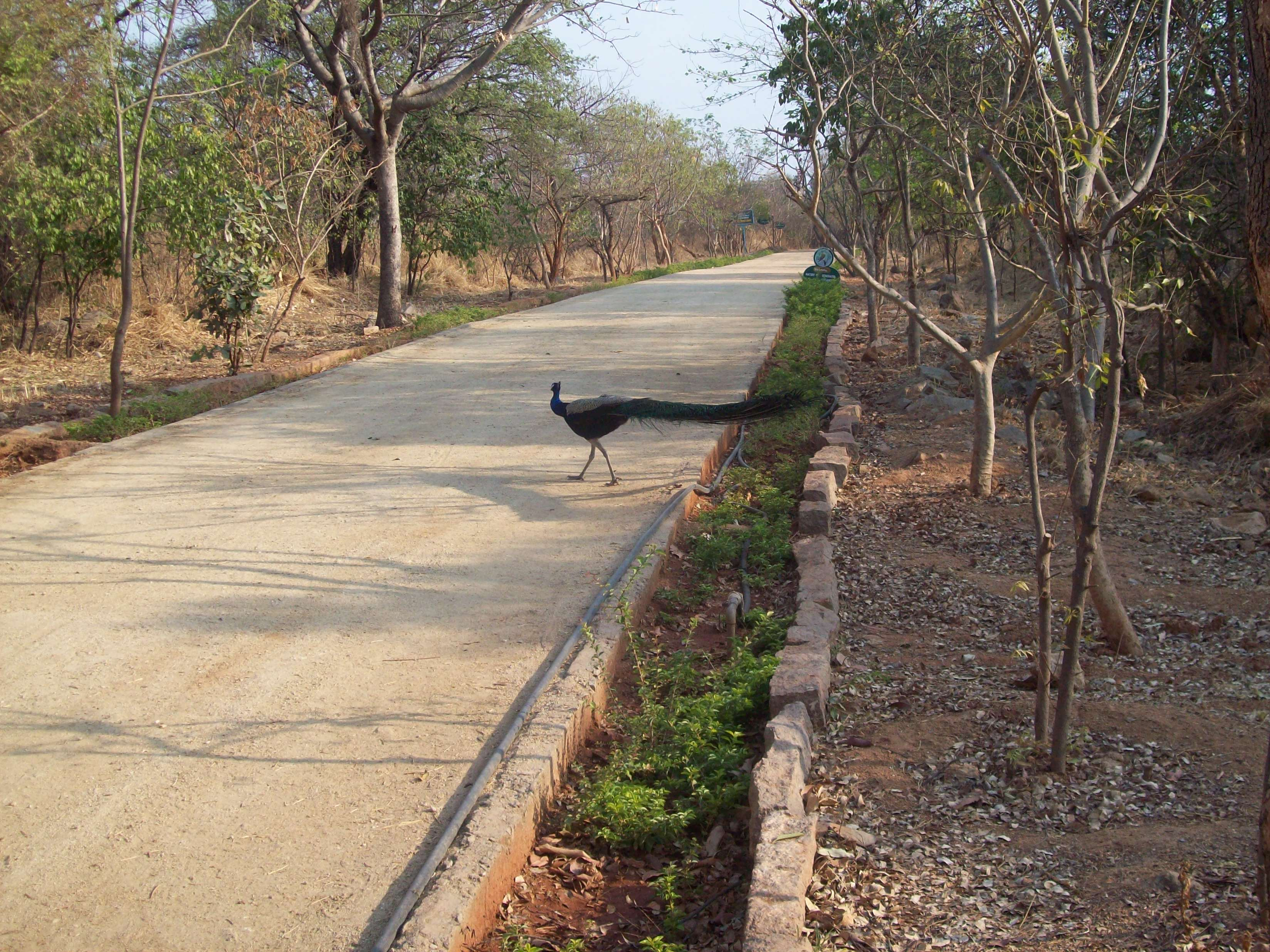 KBR Peacock